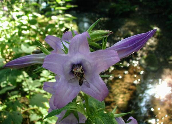 Campanula latifolia: Flower and hoverfly.